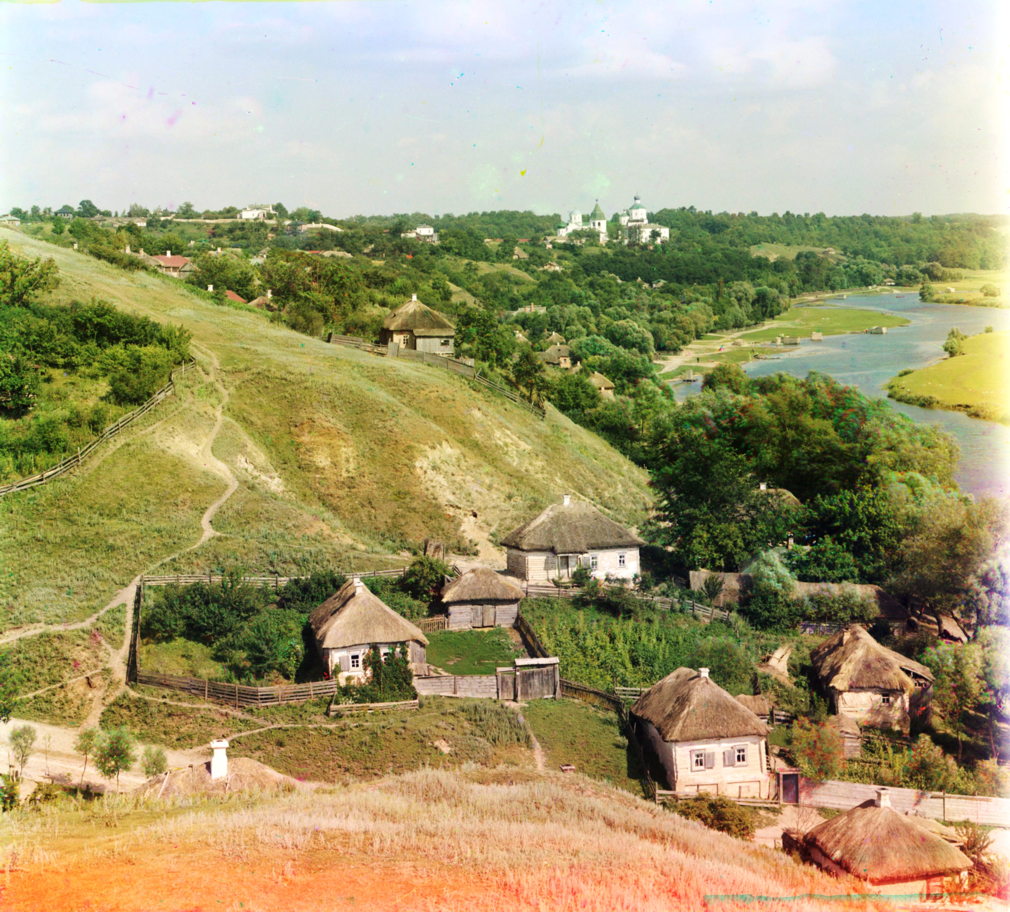 Putyvl, Ukraine. In the distance, the Molchansky Monastery. On the right, the river Seim. Digital color composite made for the Library by Blaise Agüera y Arcas, 2004.